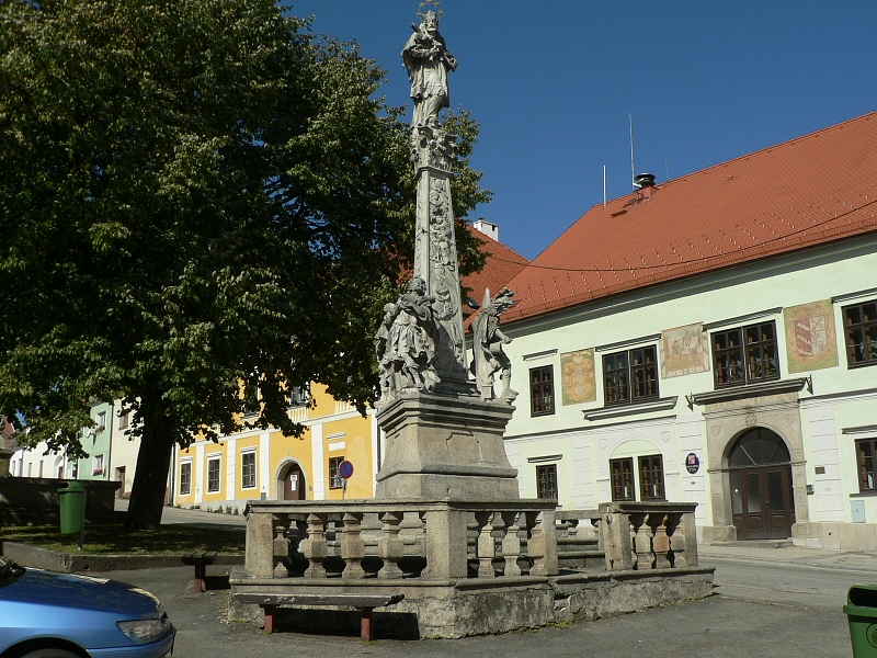 Column of Saint John Nepomucene in Benešov nad Černou